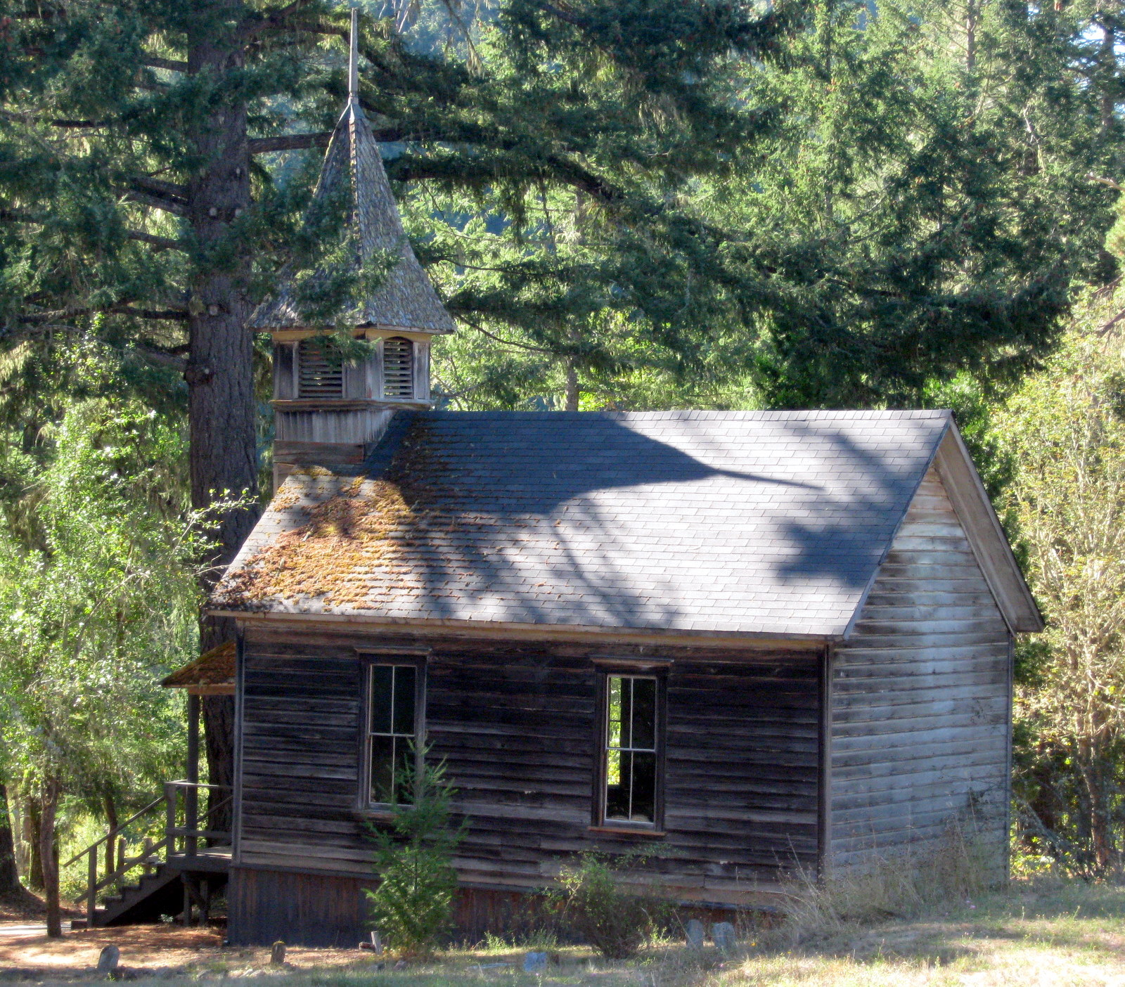 Historic church in Golden, Oregon.